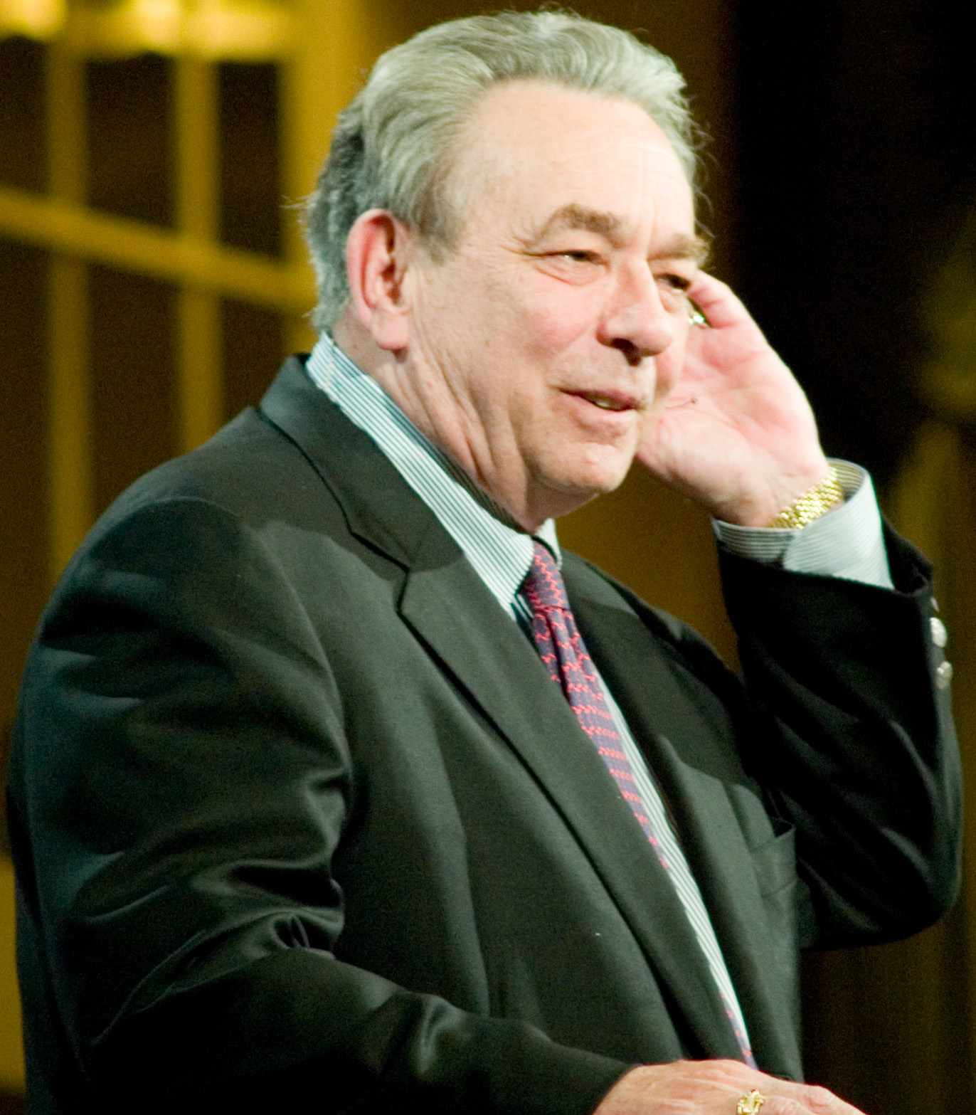 Theologian, pastor and radio teacher R. C. Sproul [1].